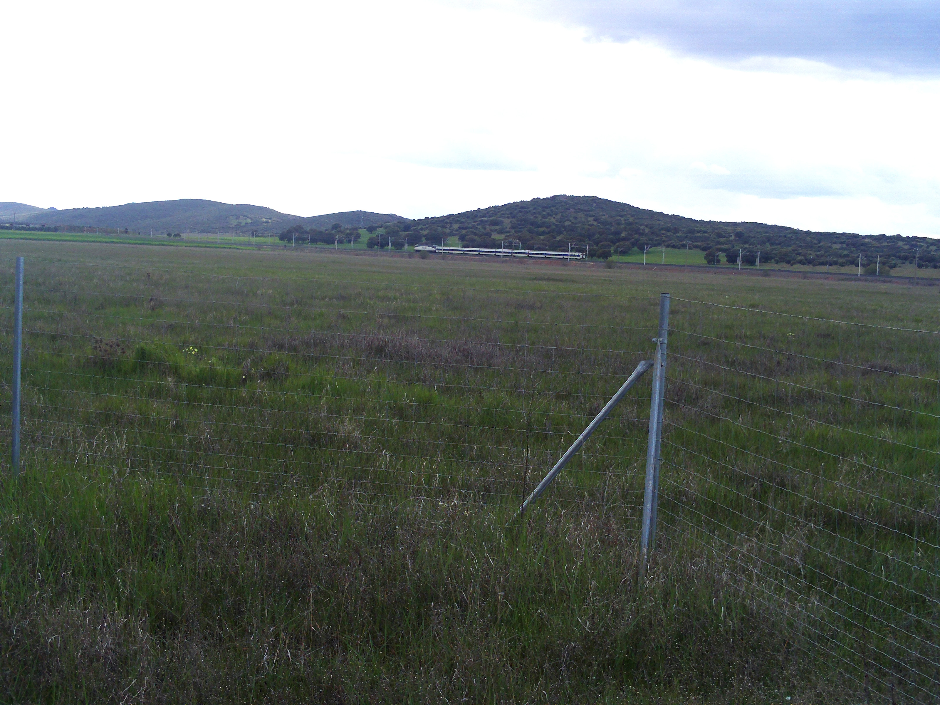 Humedal de Cañada de Calatrava con el "AVE" al fondo, Campo de Calatrava, Spain